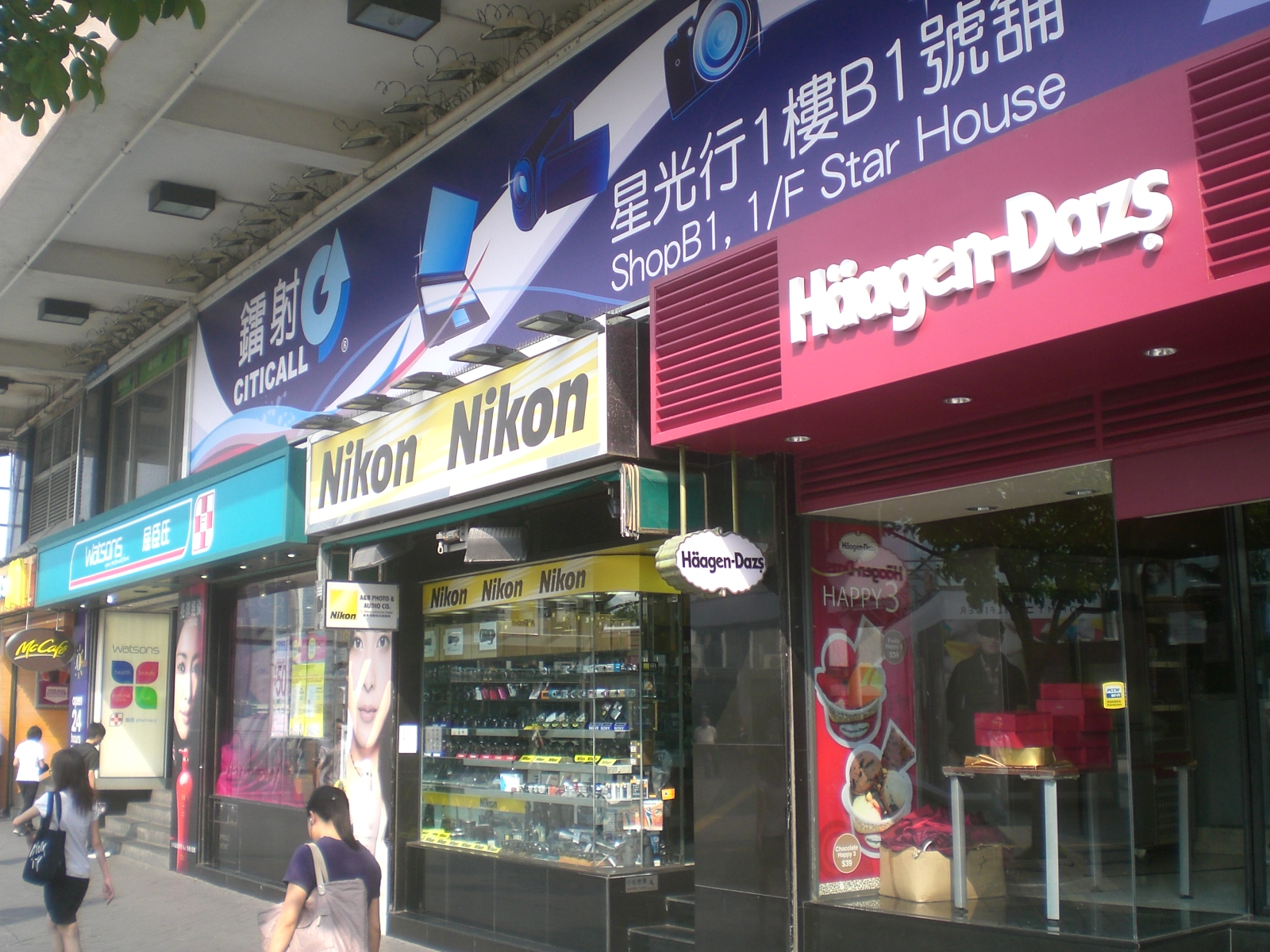 九龍尖沙咀 梳士巴利道 星光行 街鋪: 屈臣氏藥房, 鐳射發展, Häagen-Dazs